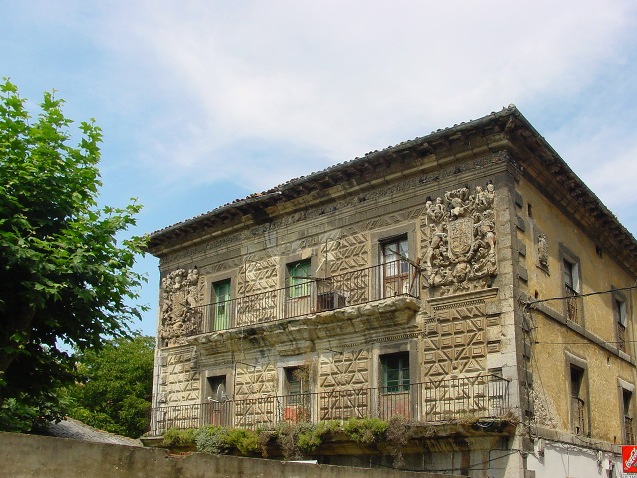 Palace of the marquises of Chiloeches, Santoña (Cantabria, Spain)